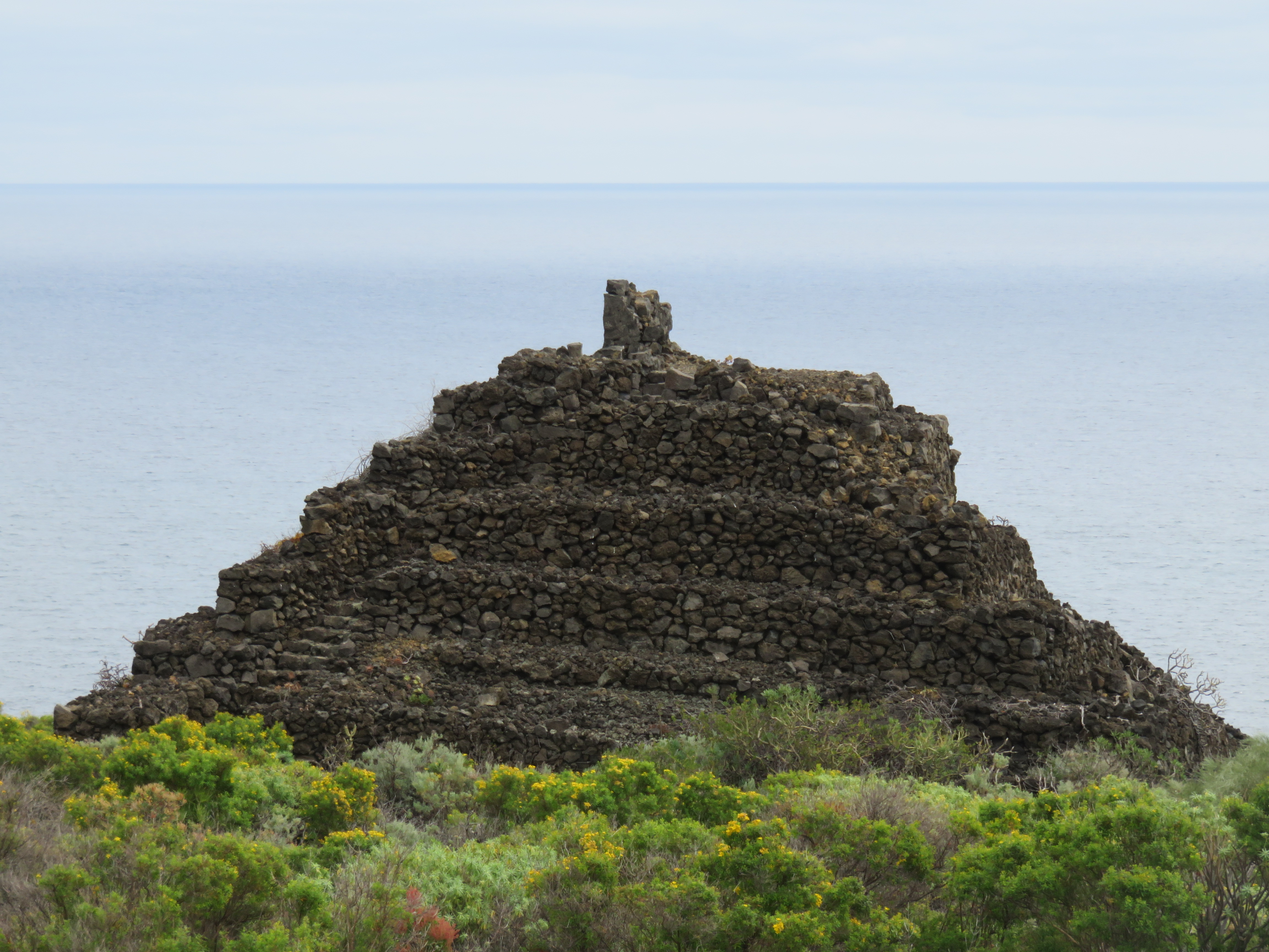 Pyramid in Los Cancajos, La Palma